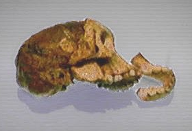 Picture from English Wikipedia. Australopithecus Africanus Facial part of scull (right) and natural endocranial cast (left) Discovered in Bostwana 1924 by Raymond Dart ---- Taken by myself with cellphone camera.